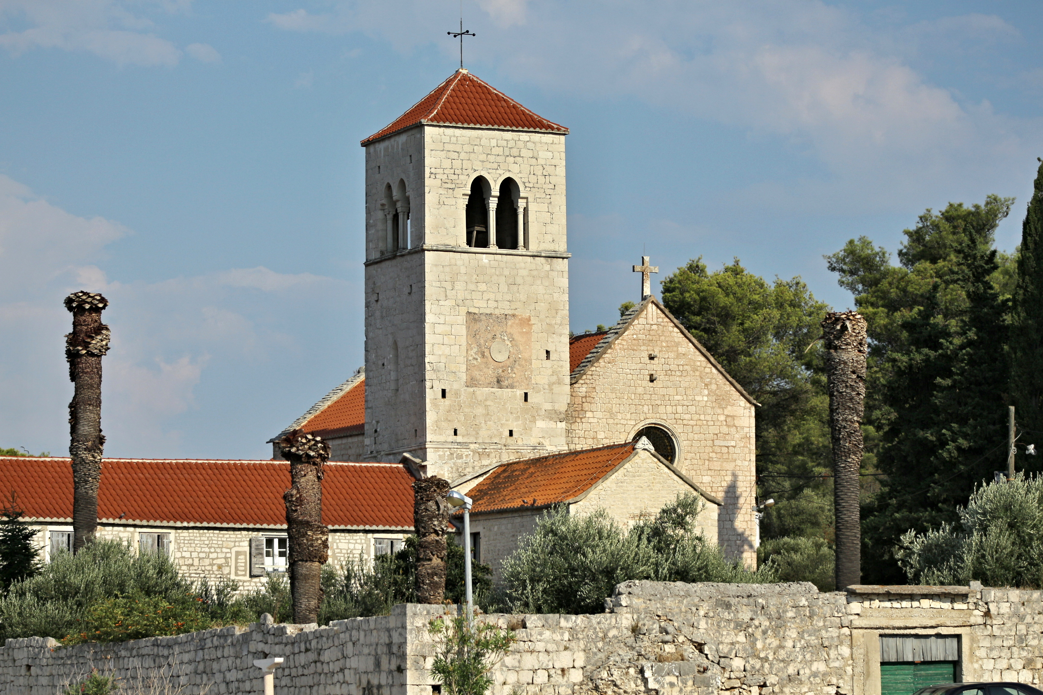 Dominican monastery with the church of the Holy Cross, Arbanija, Čiovo Island, Croatia